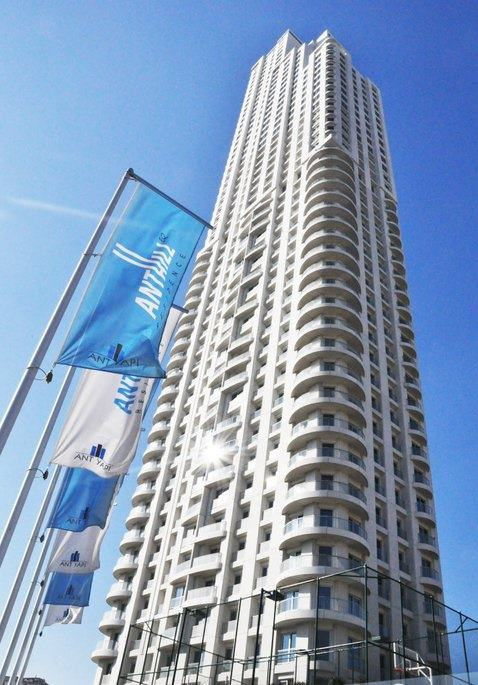 Anthill Residence with flags